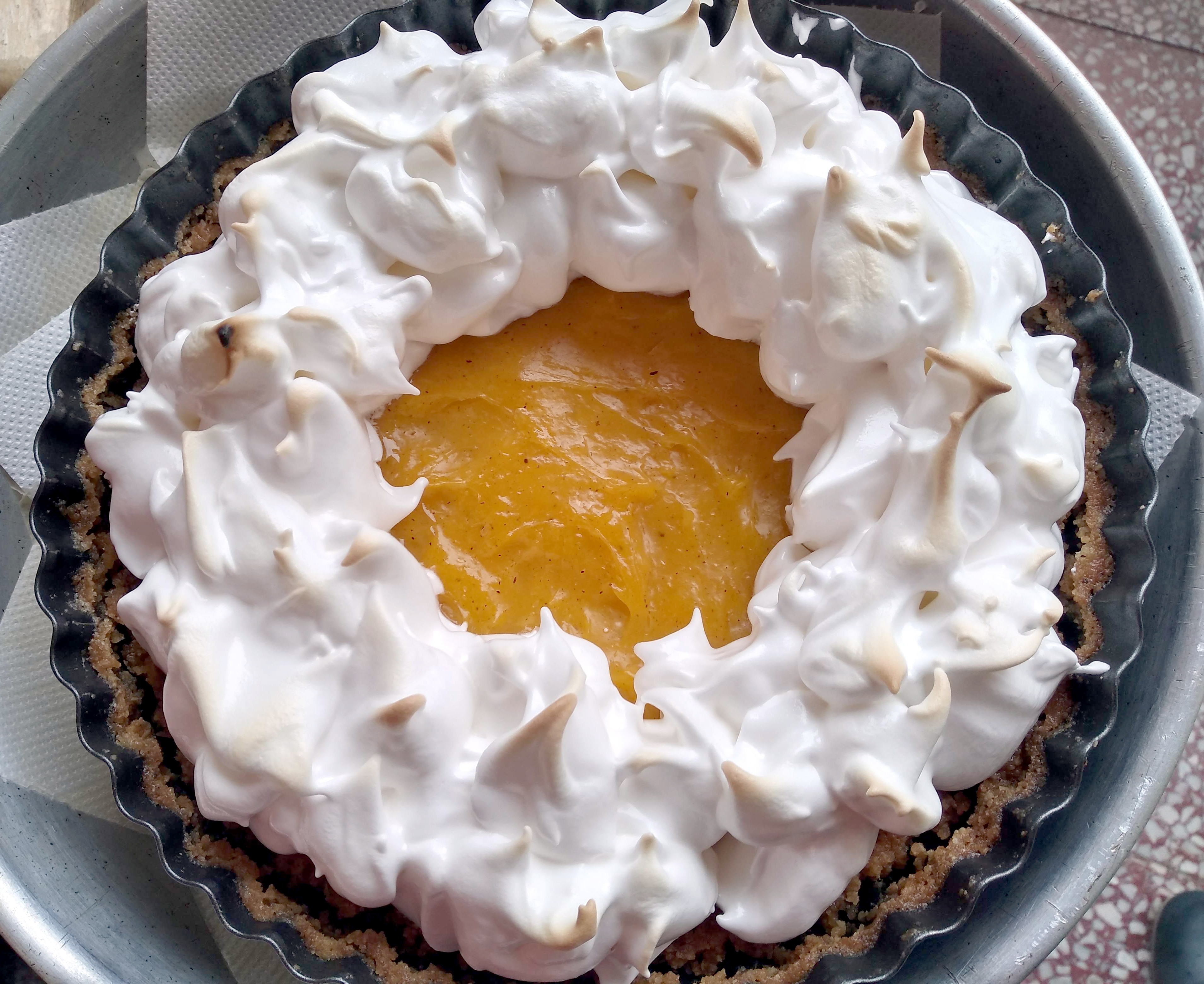 Orange tart